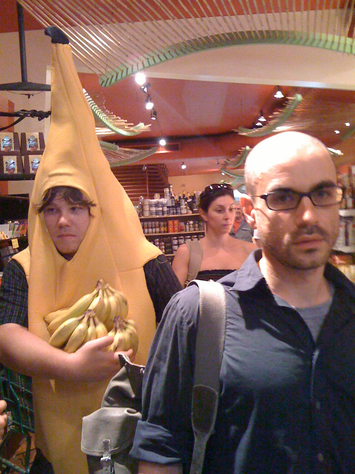 Author Jonathan Goldstein and banana man.